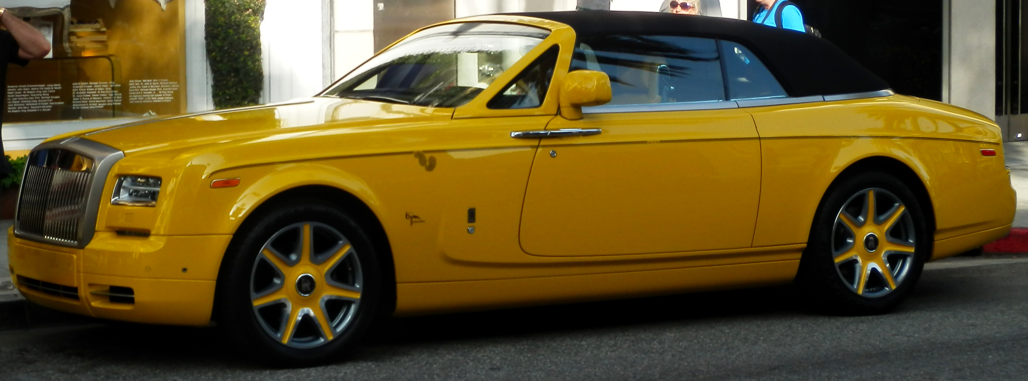 Rolls-Royce Phantom Drophead Coupe 'Bijan' in Beverly Hills